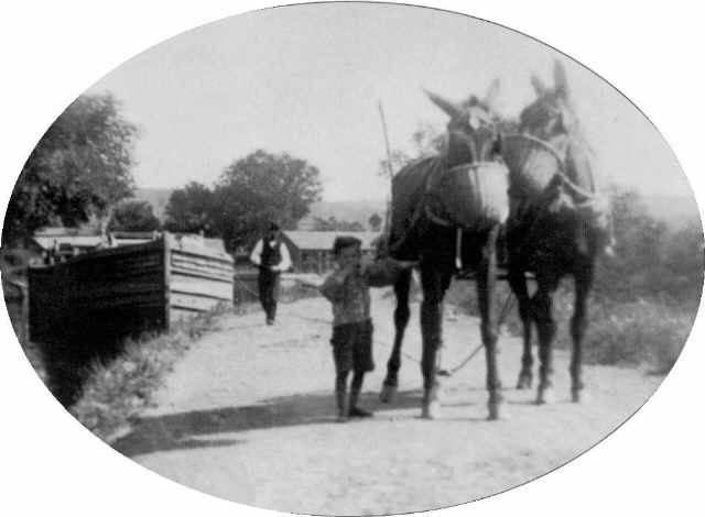 Child leading mules on the Delaware and Hudson Canal, believed to be near Rosendale, New York, USA.